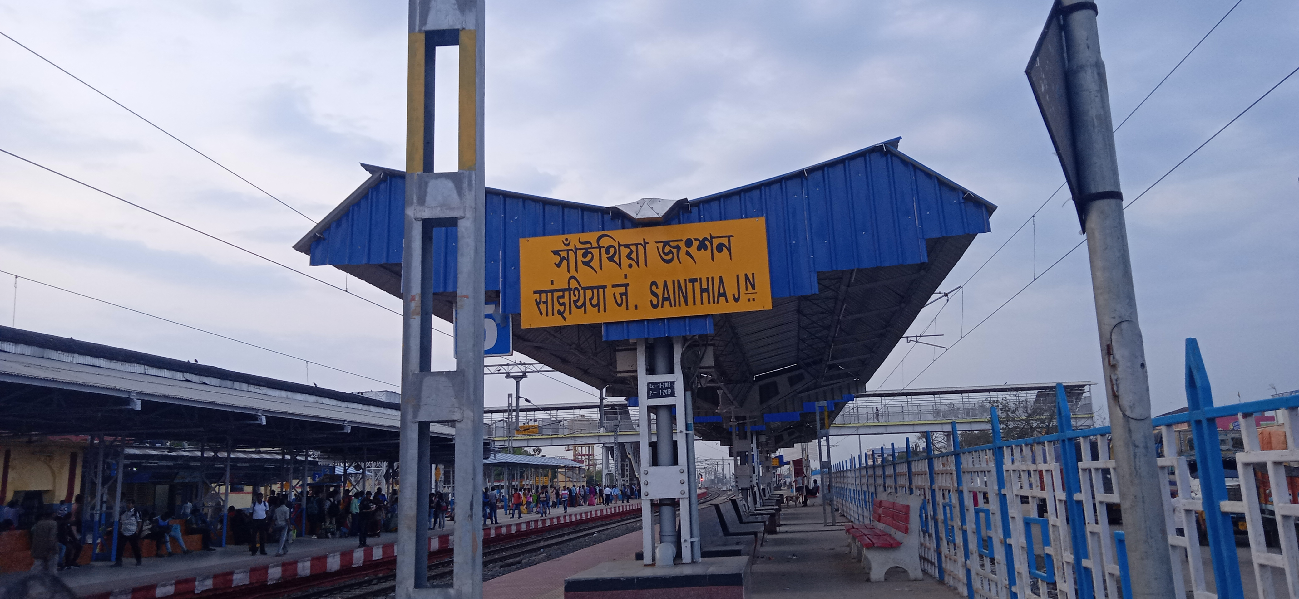 A shed at Platform No. 5 of Sainthia Junction Railway Station.